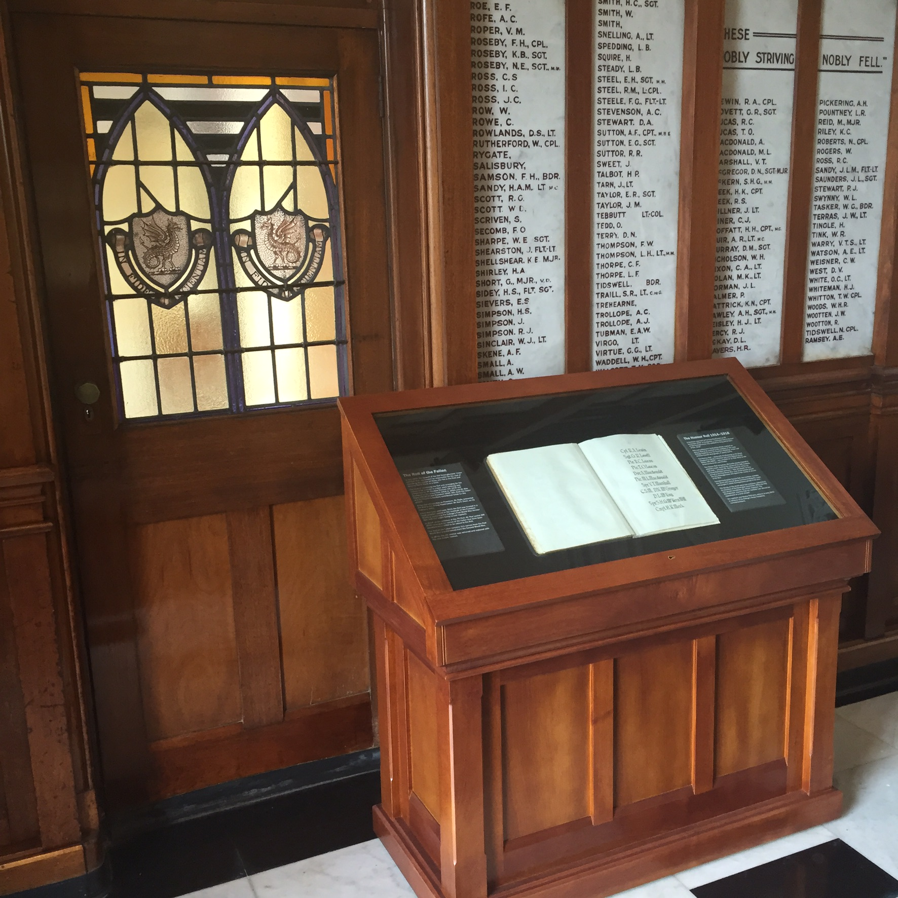 English